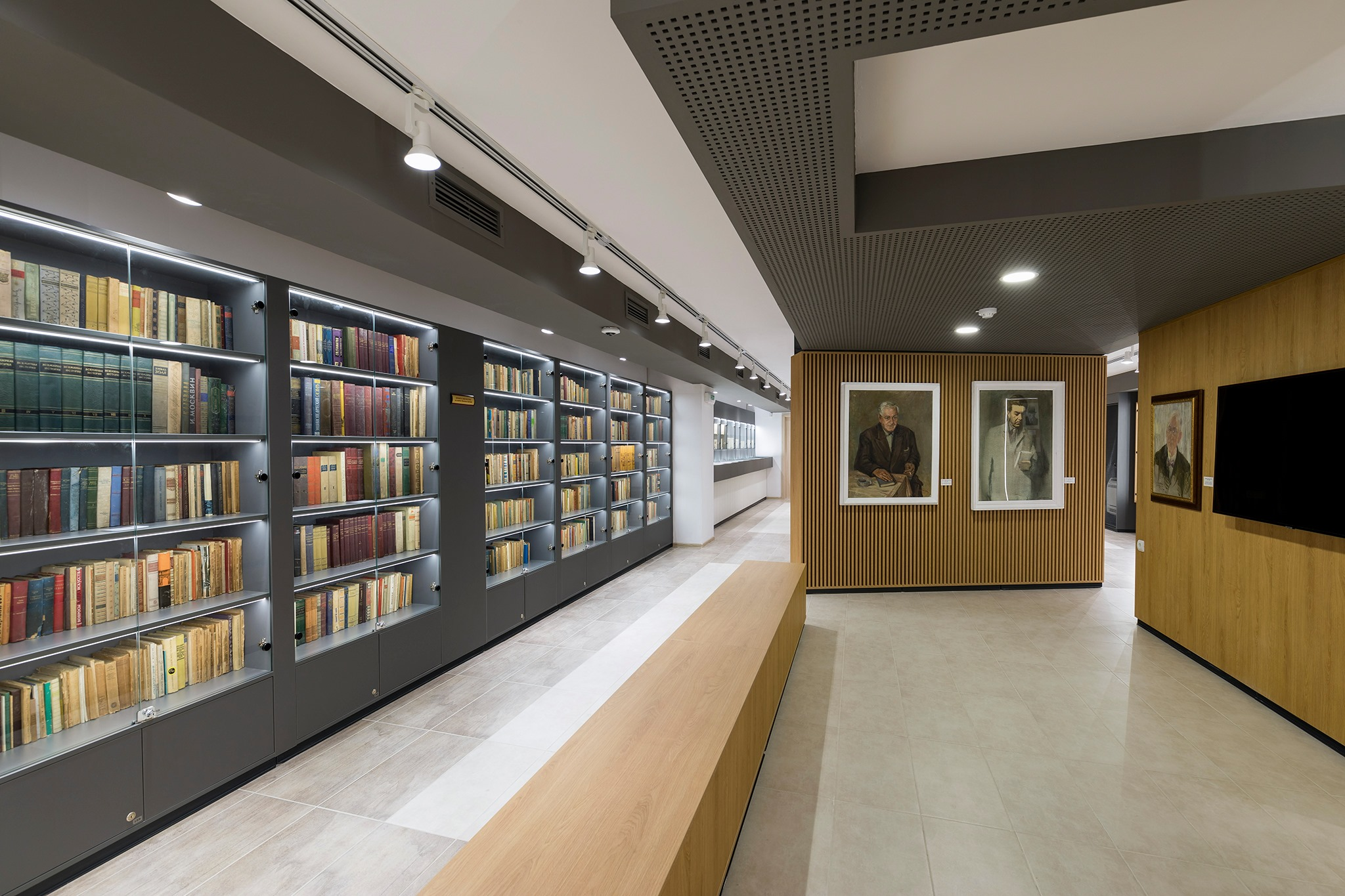 The “Literary Stara Zagora” museum offers a fascinating encounter with the literary past of the Stara Zagora region, which takes center stage in the Bulgarian literary traditions.